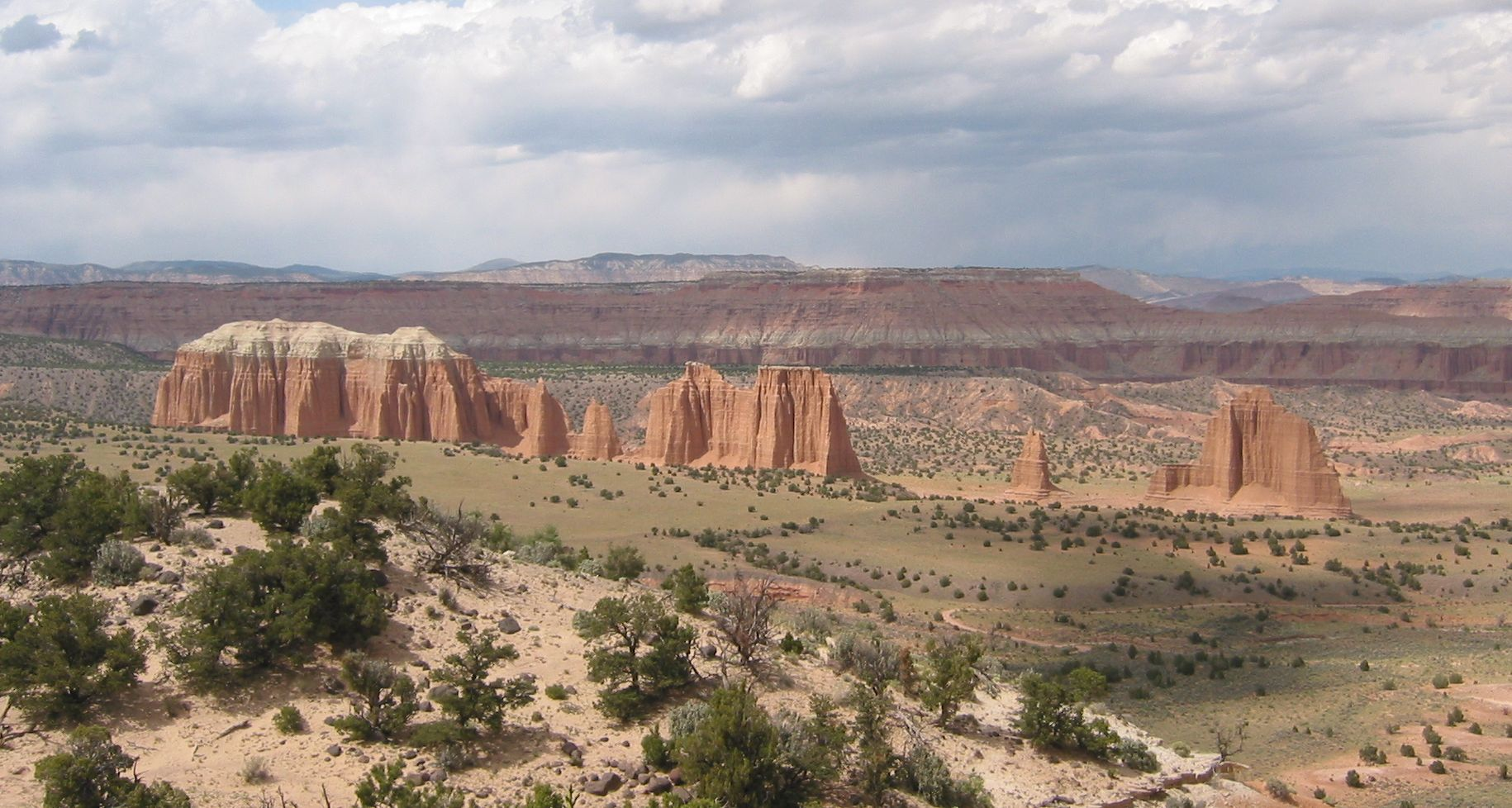 Cathedral Valley in Capitol Reef National Park, Utah, USA